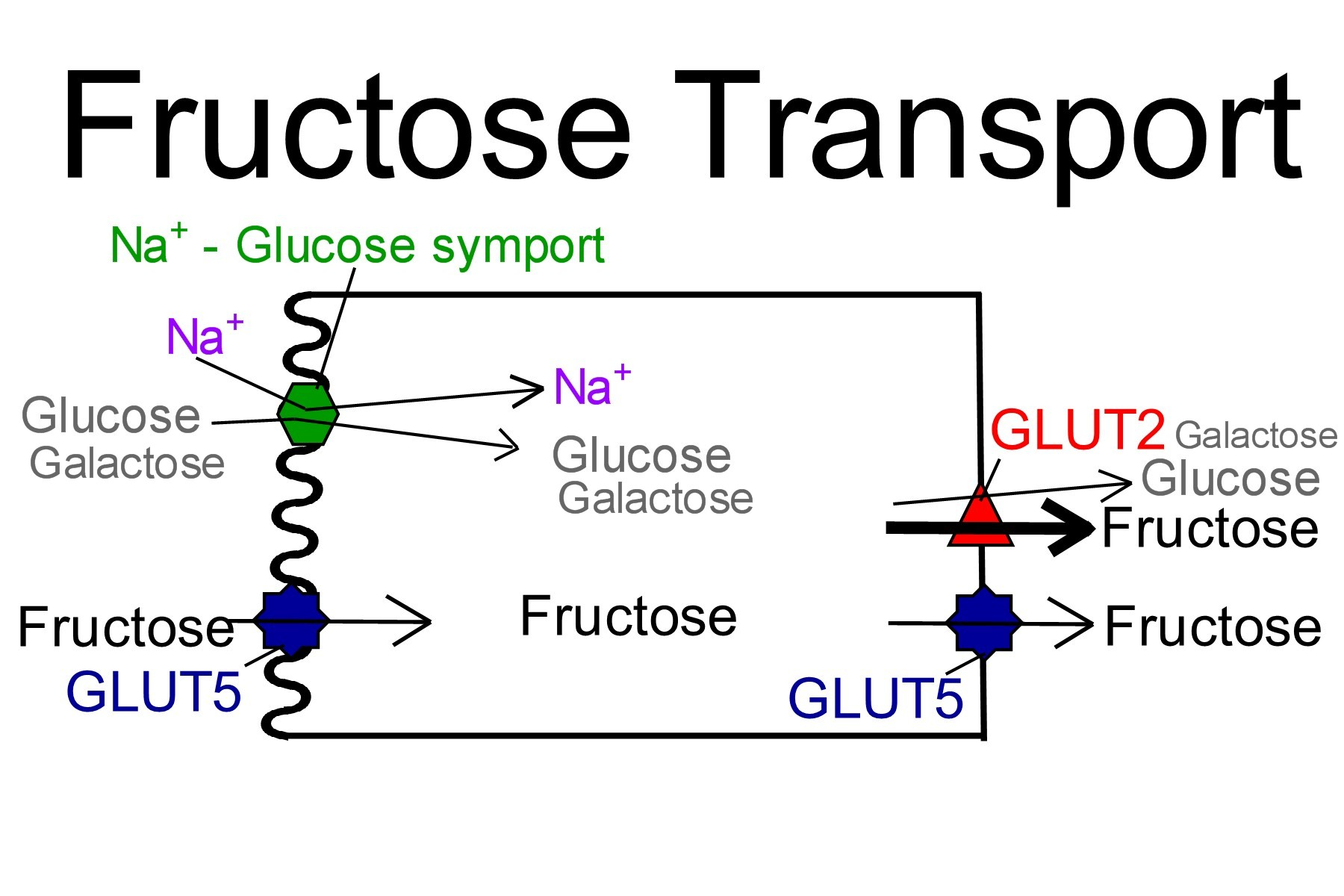 Intestinal monosaccharide transporters.